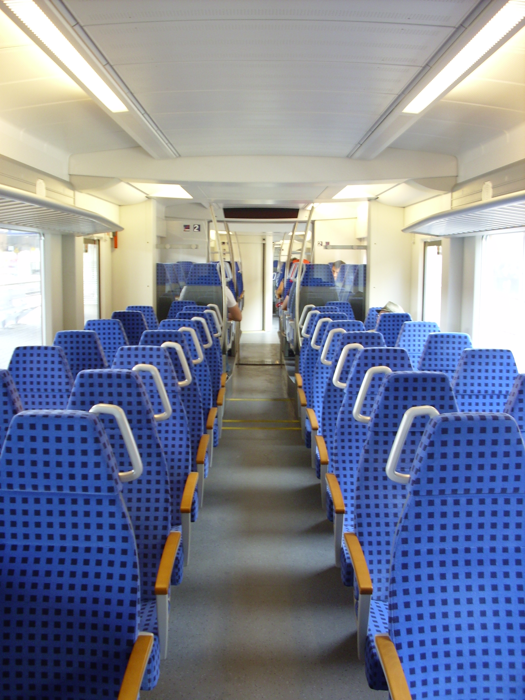 Passenger compartment (Economy class) of Class 440.